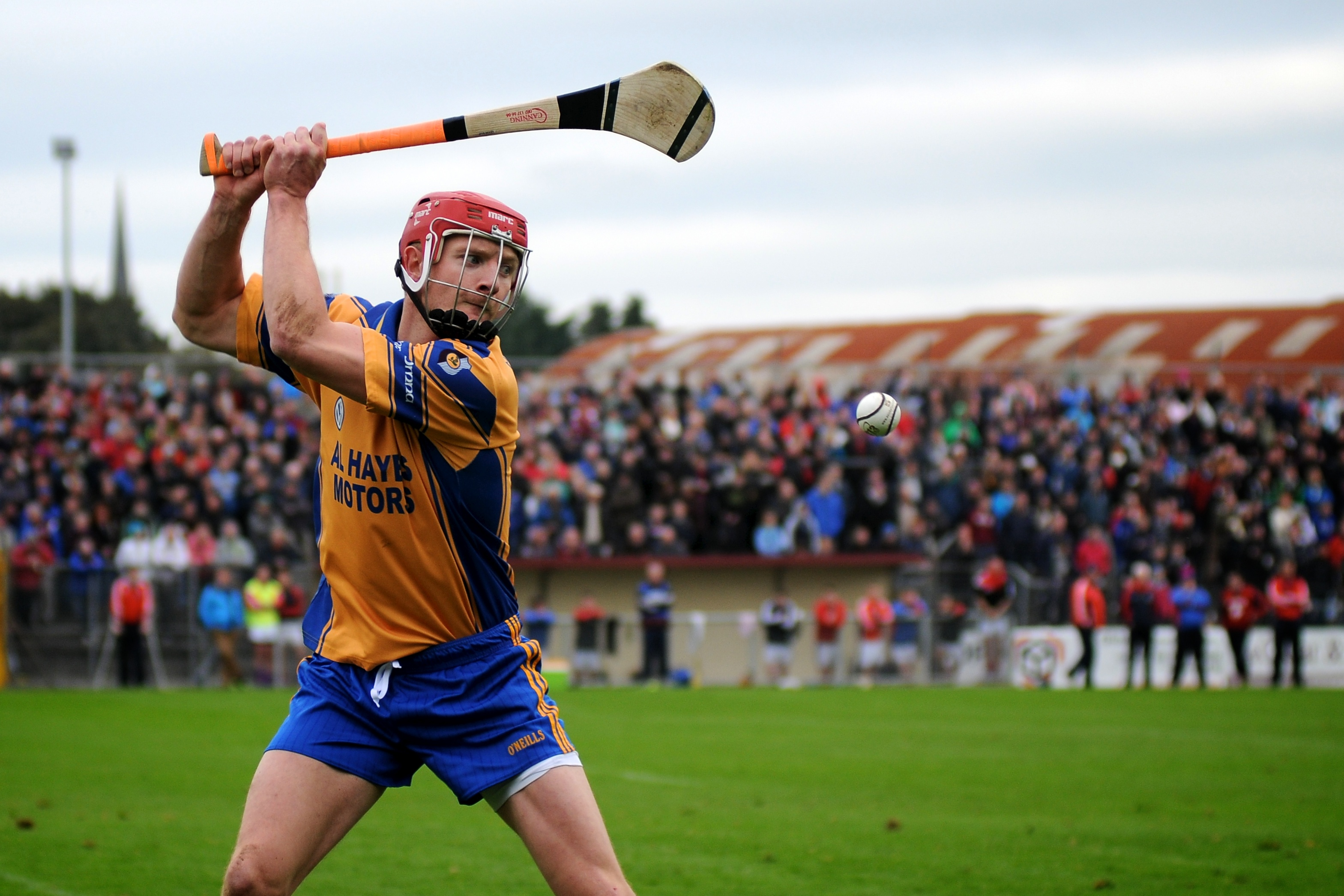 Joe Canning playing for Portumna v St. Thomas' in the 2013 Galway Senior Hurling Semi-final in Athenry